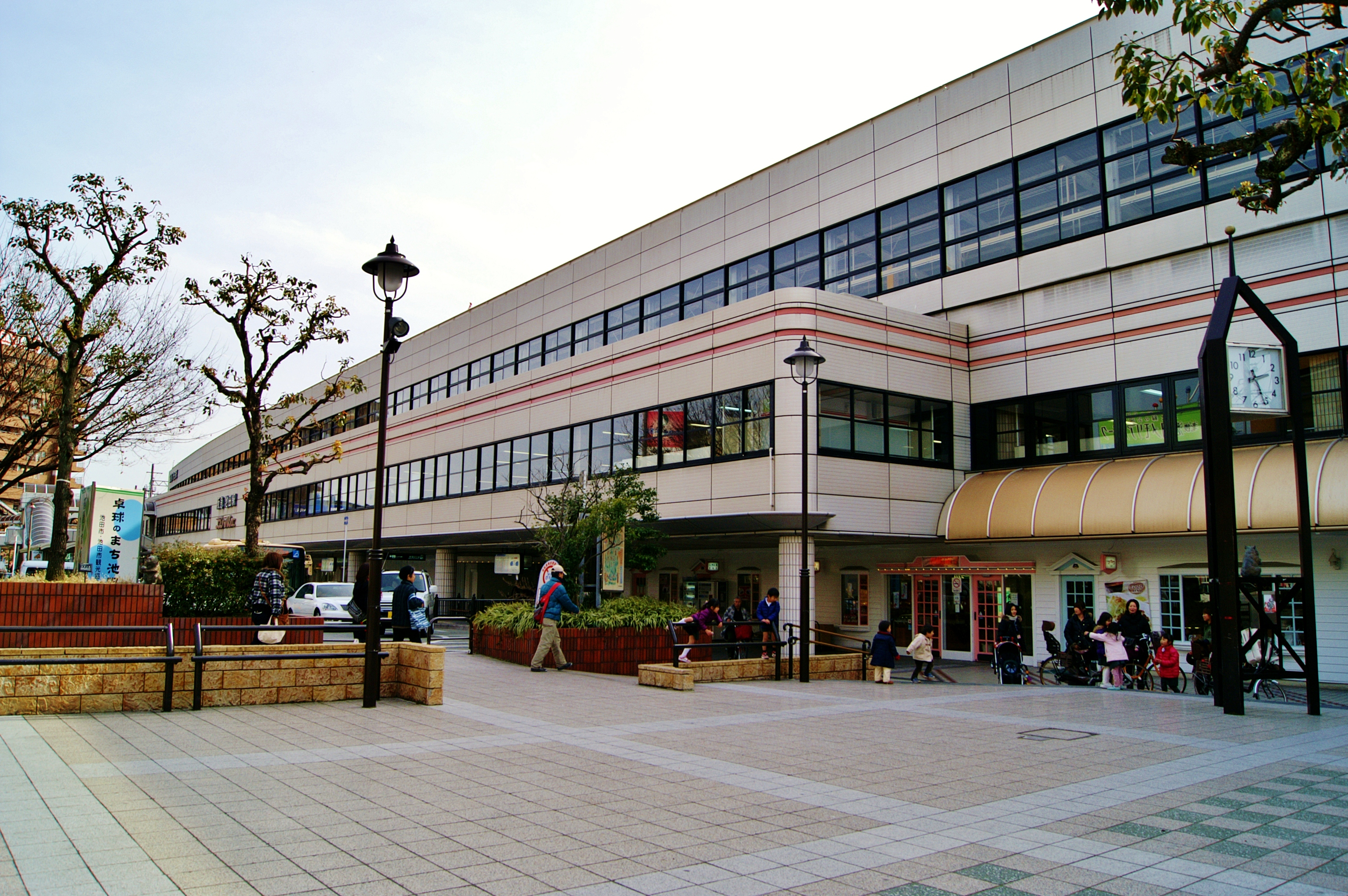 Hankyu Ikeda station (Osaka) north exit